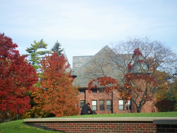 Photo of Lake Forest College. By Henry Salas.